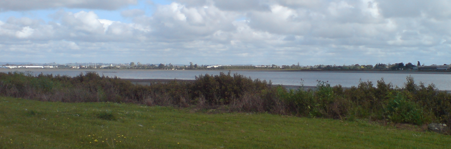 Looking over the Manukau Harbour at Favona, an industrial suburb of Manukau City, New Zealand.